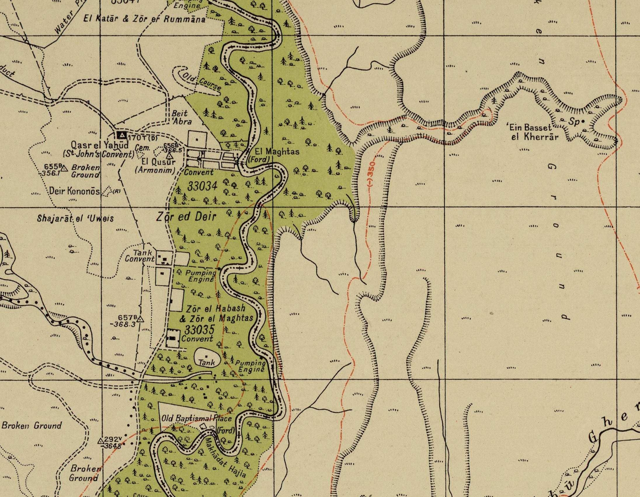 Survey of Palestine maps